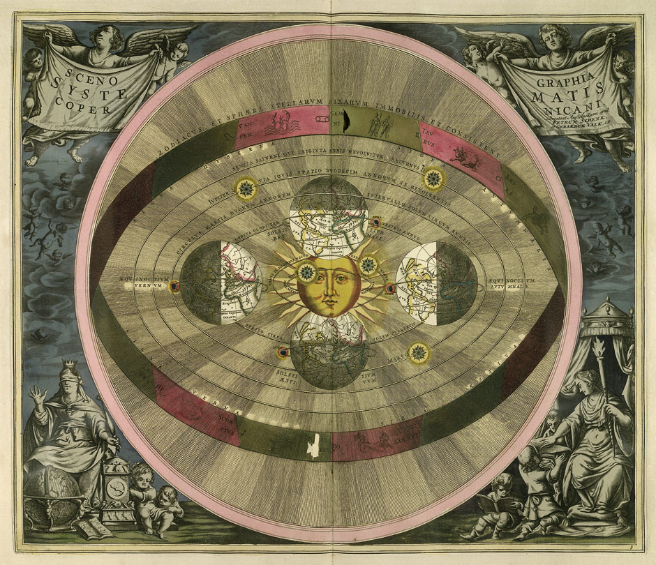 Andreas Cellarius: Harmonia macrocosmica seu atlas universalis et novus, totius universi creati cosmographiam generalem, et novam exhibens, Amsterdam : G. Valk und P. Schenk, 1708. Scenographia systematis Copernicani